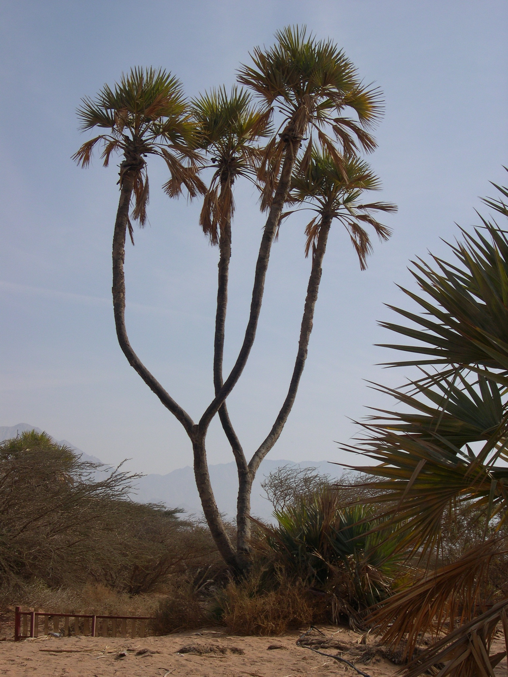 Palm Dome near Eilat